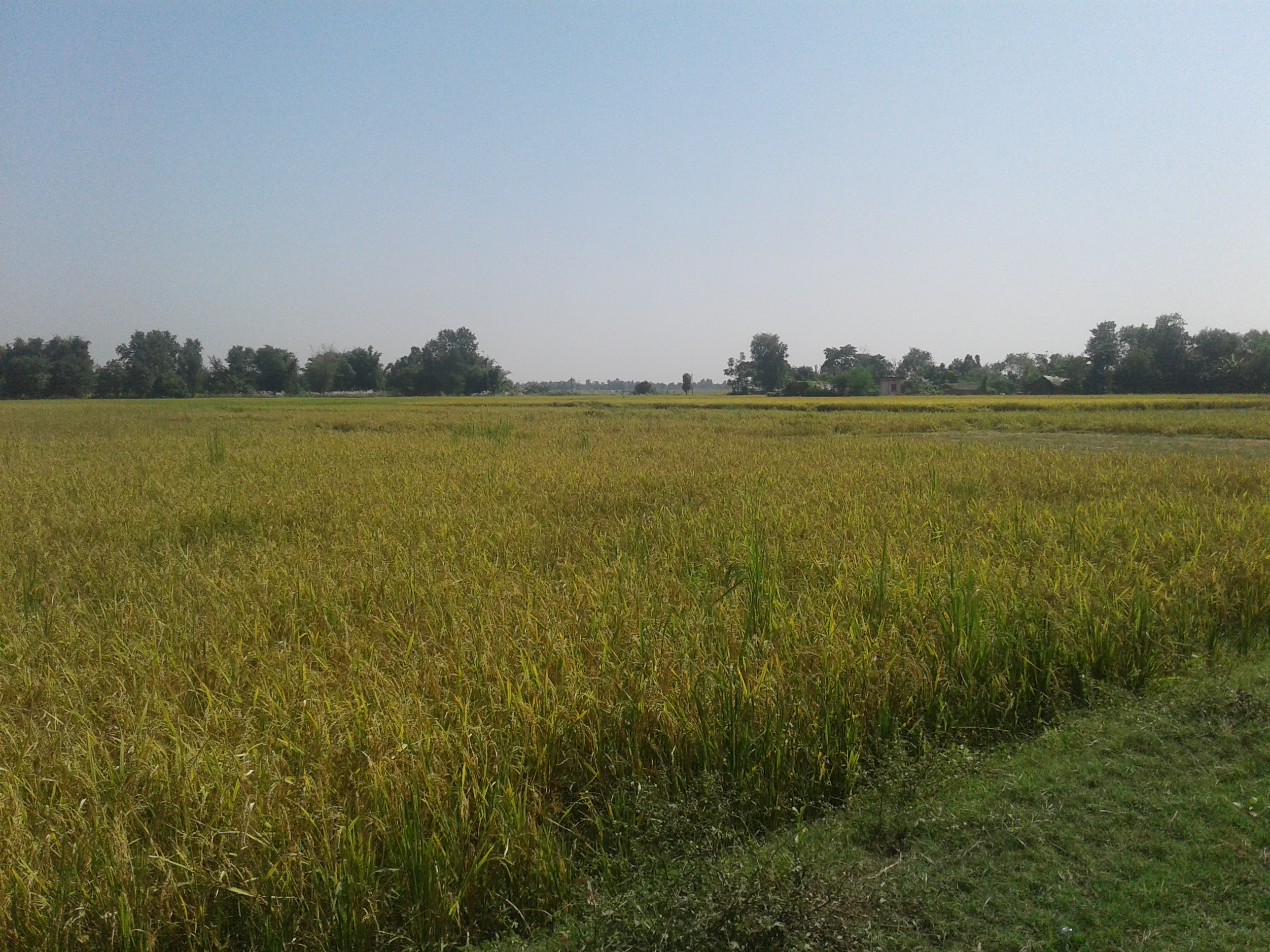 kopawa is a beautiful place located at Banganga municipality kapilvastu Nepal